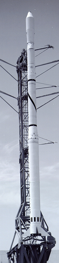 Scout B with OV3-04 10 june 1966